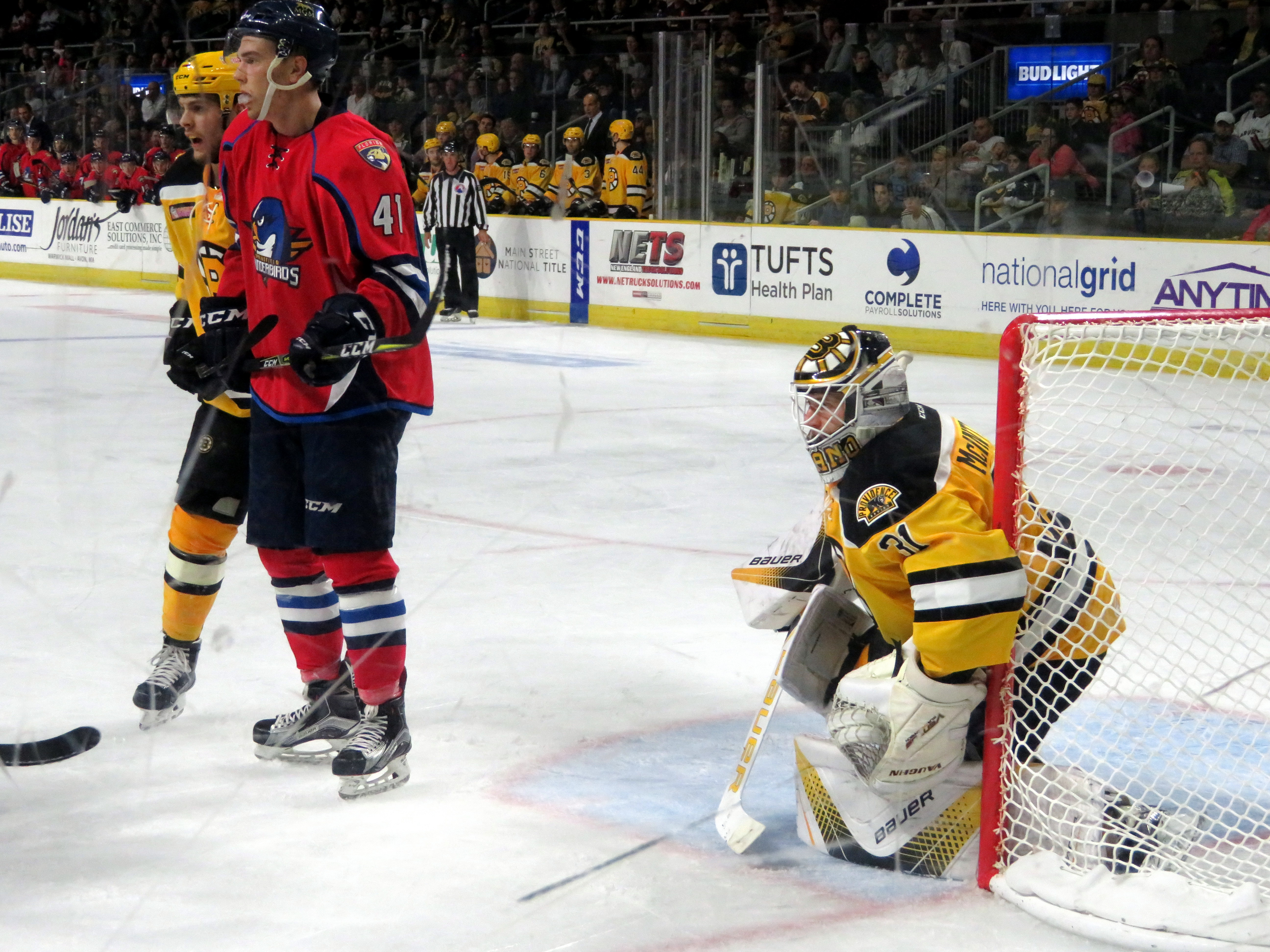 Juho Lammikko of Springfield Thunderbirds against Providence Bruins